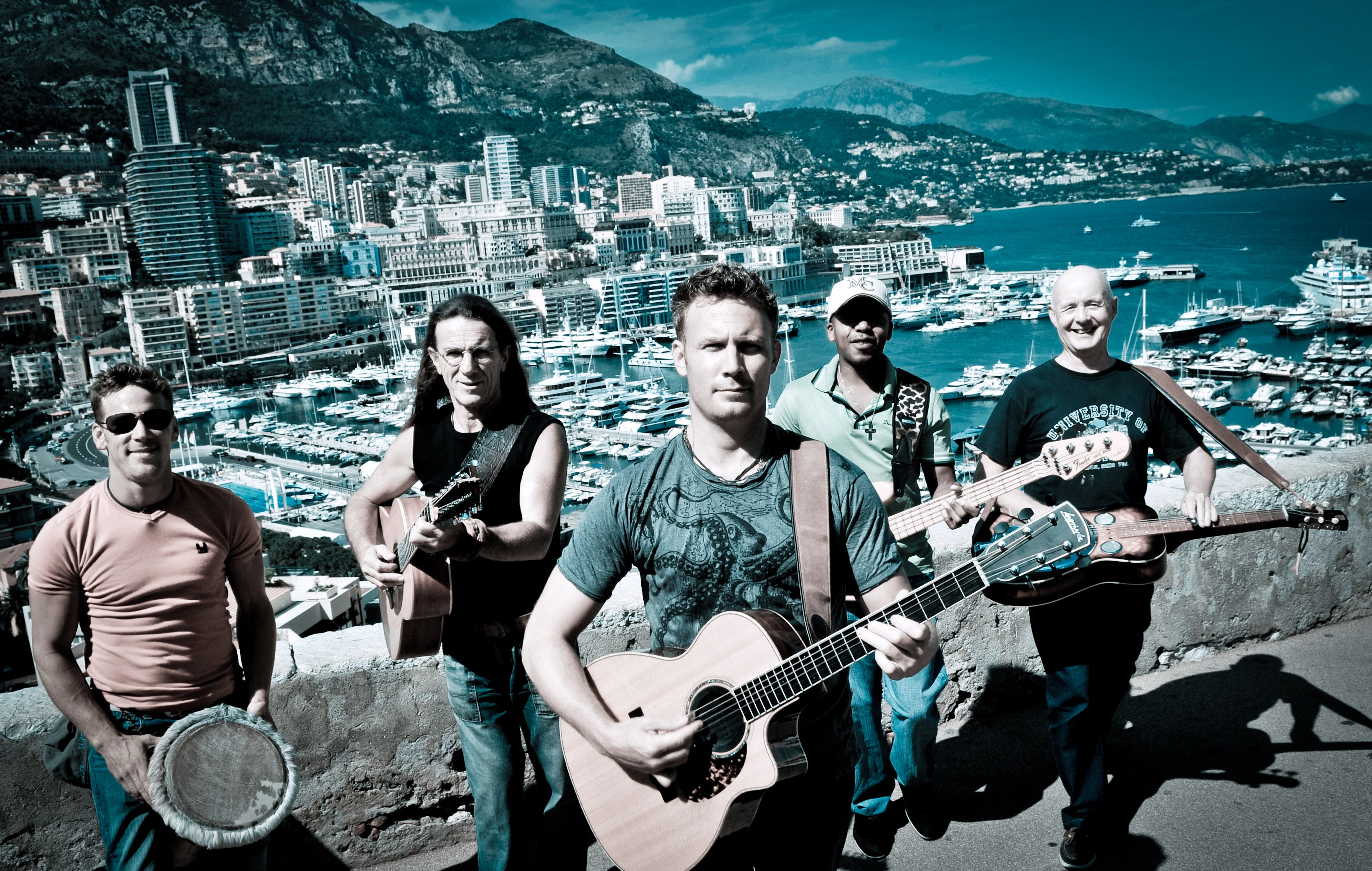 Jason Hartman and his band Monaco 2011